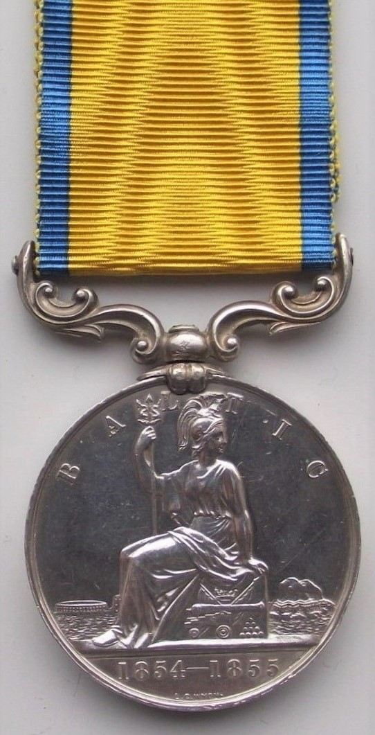 British campaign medal for Baltic Sea operations by Royal Navy during Crimean War.